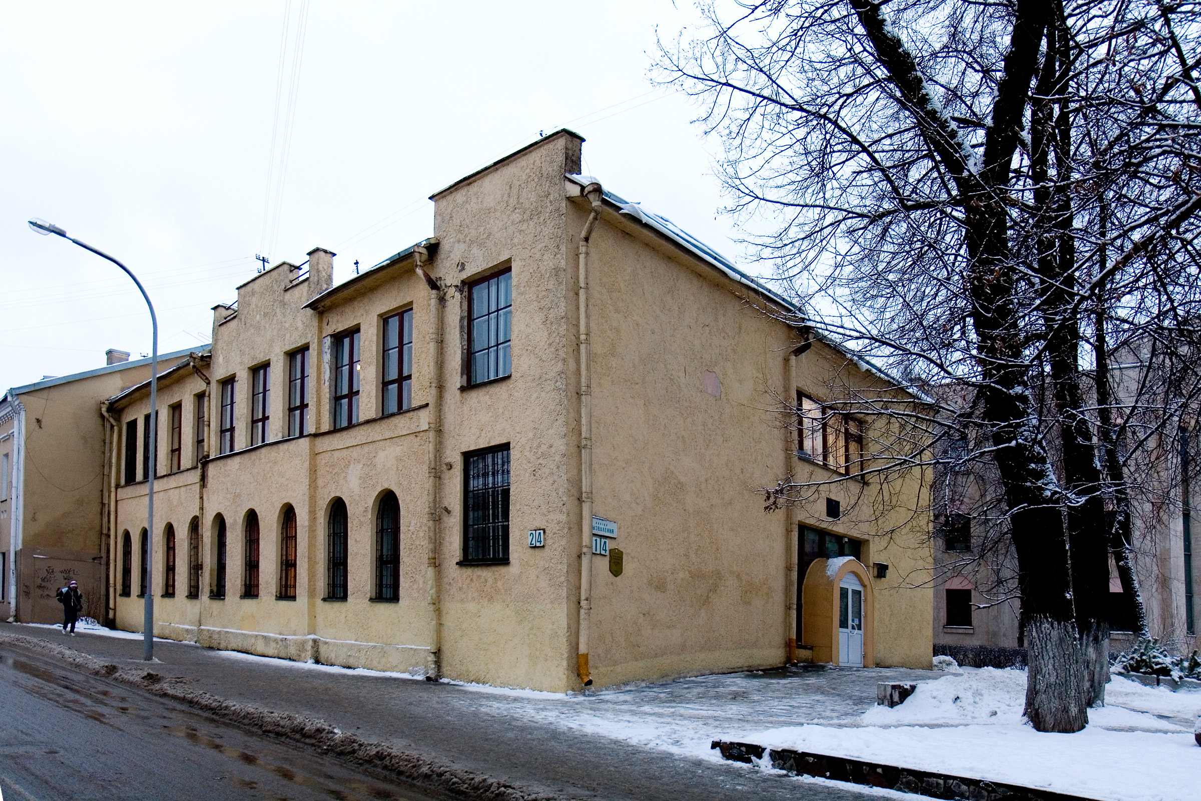 Rakaŭskaje suburb in Minsk, Belarus. The building of 19th century. Former synagogue building, former theatre building, nowadays SDYUSHOR-11 Children and Youth Sports School.